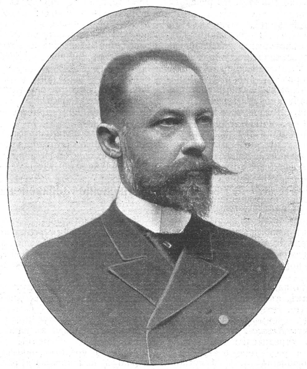 O.O. Mochutkovsky